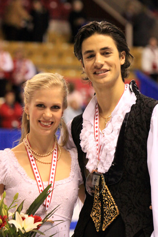 Kaitlyn Weaver & Andrew Poje (CAN) at the 2009 Skate Canada